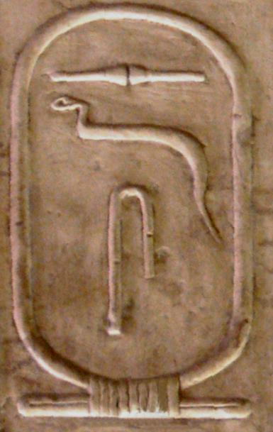 Royal cartouches 15 through 19